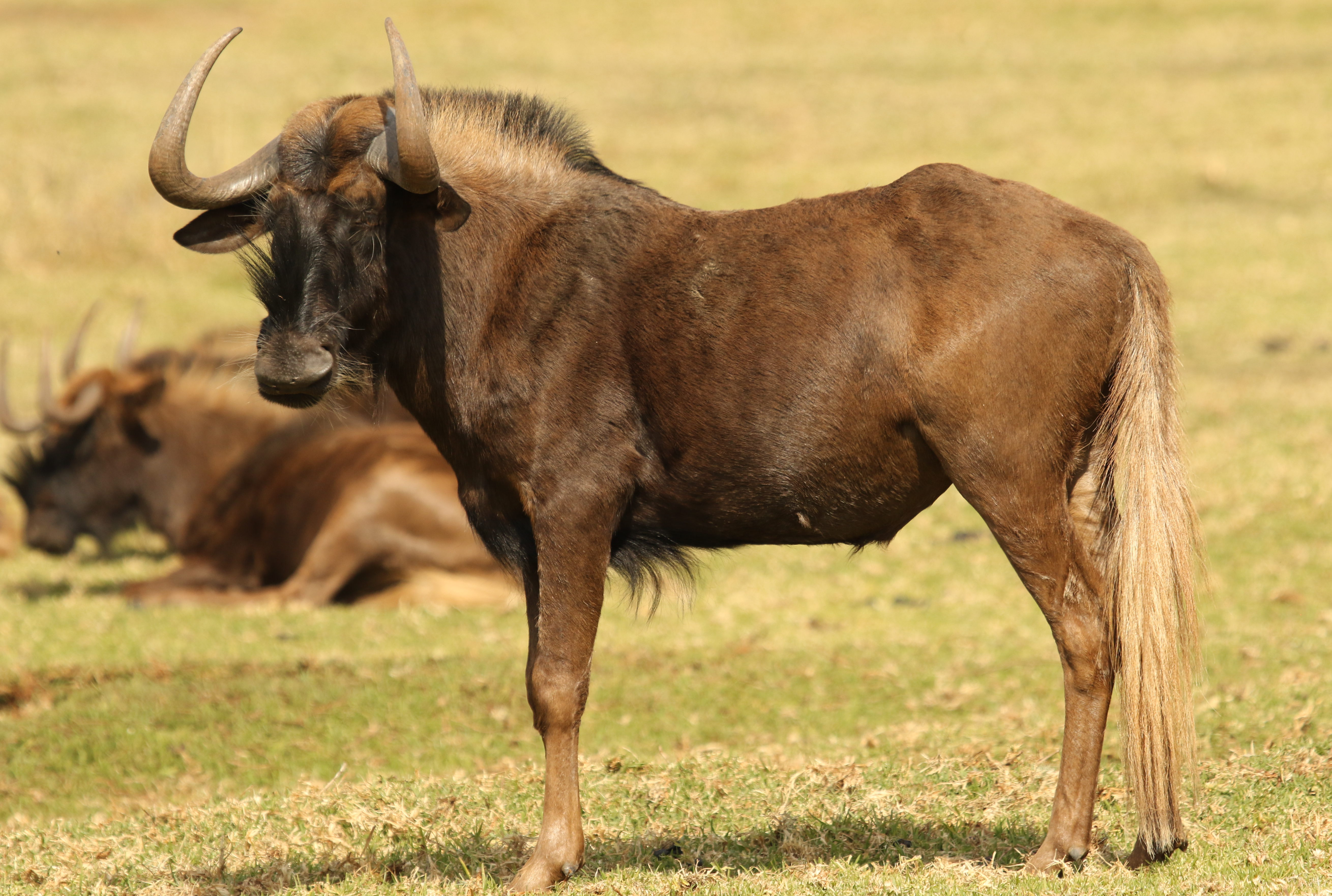 Black wildebeest, or white-tailed gnu, Connochaetes gnou at Krugersdorp Game Reserve, Gauteng, South Africa